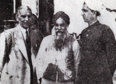 Mohammad Ali Jinnah, Master Tara Singh, and Malik Khizar Hayat Tiwana at the Simla conference hosted by Lord Wavell, June 1945